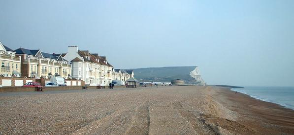 Seaford beach Looking east along the beach at Seaford, East Sussex. Note the martello tower and the cliffs behind, the most westerly point where the South Downs meet the sea.